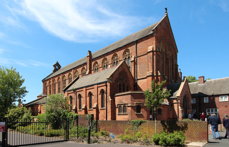 All Saints' parish church, Herbert Road, Small Heath, West Midlands, seen from the southeast